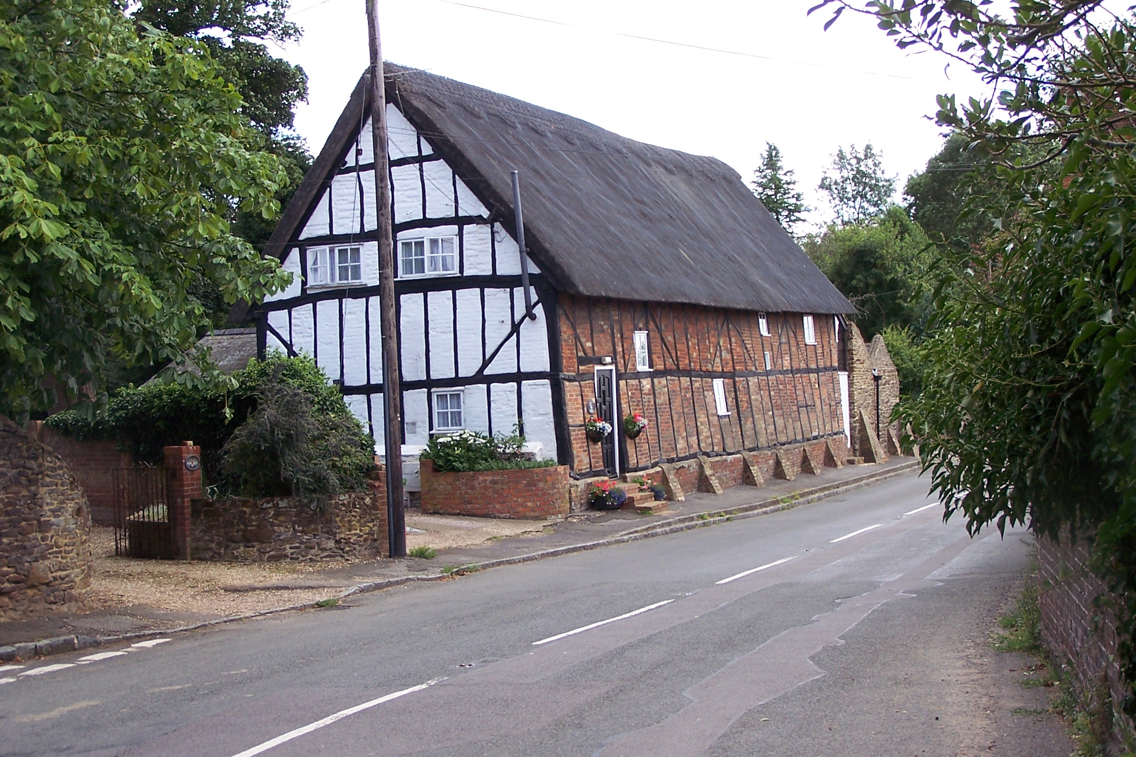 "Cromwell's Cottages" in Great Brickhill, Milton Keynes. The building was allegedly used by some of the Earl of Essex' men in 1643. Photo Cnyborg, July 2005